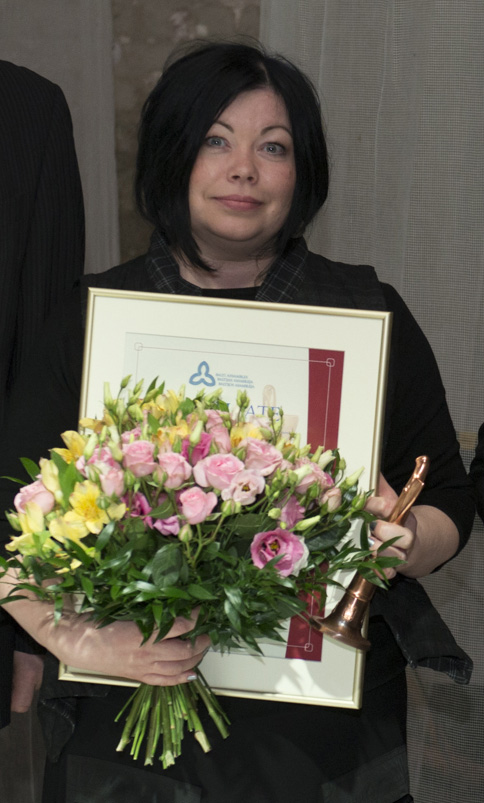 Renāte Blumberga at the prize ceremony of the Baltic assembly in 2013